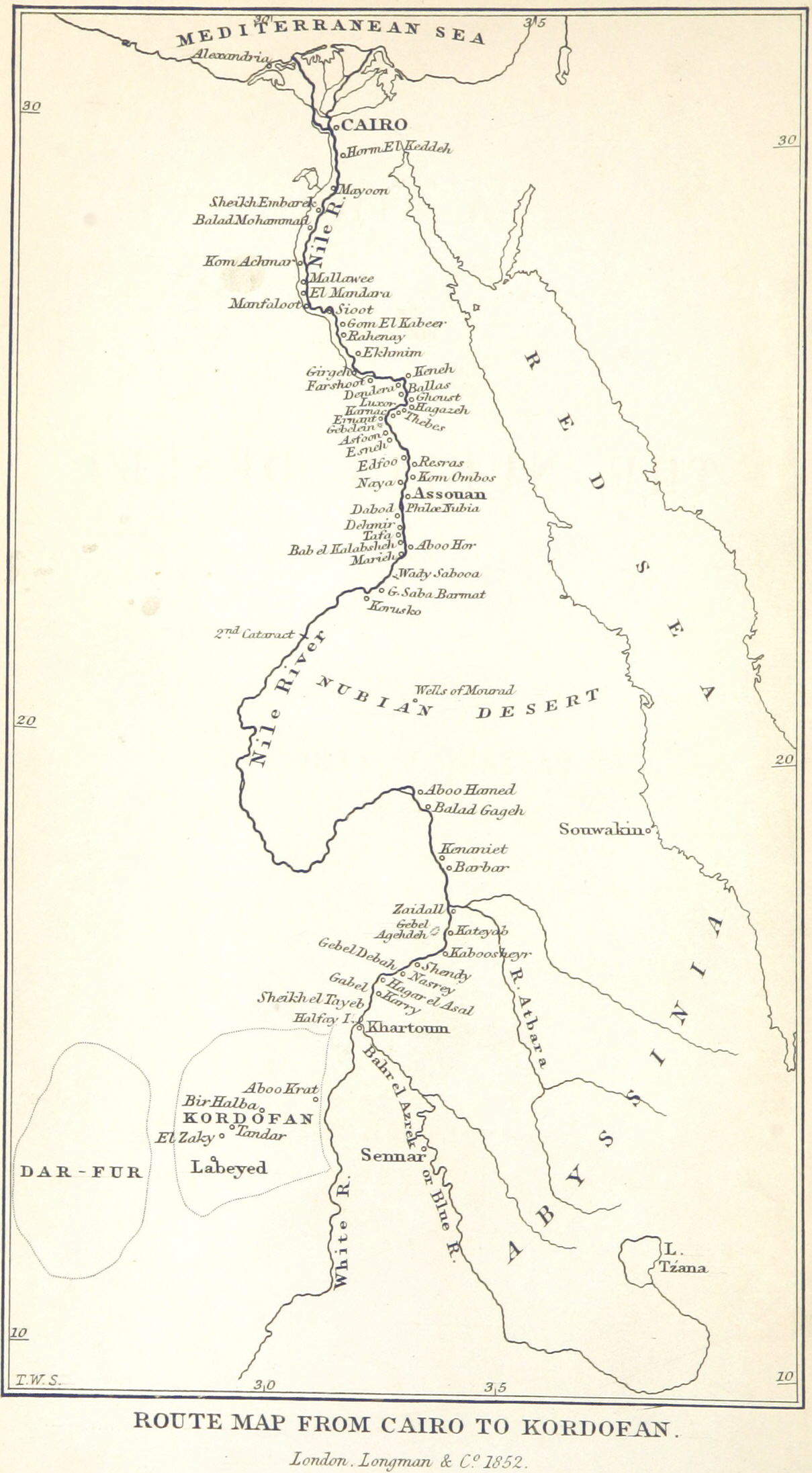 Page 12 of A Ride through the Nubian Desert.